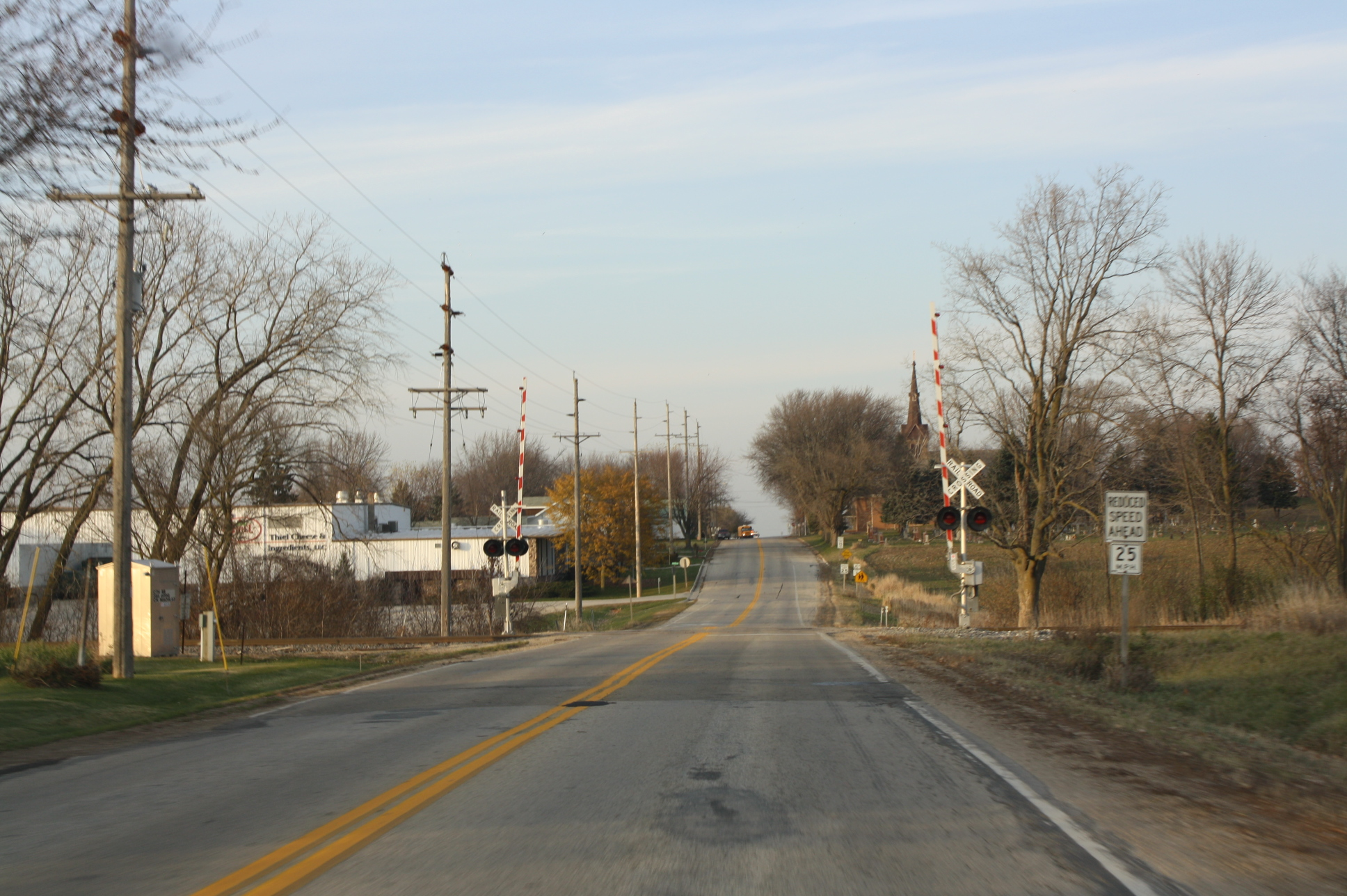 Looking north at St. John, Wisconsin on County B.